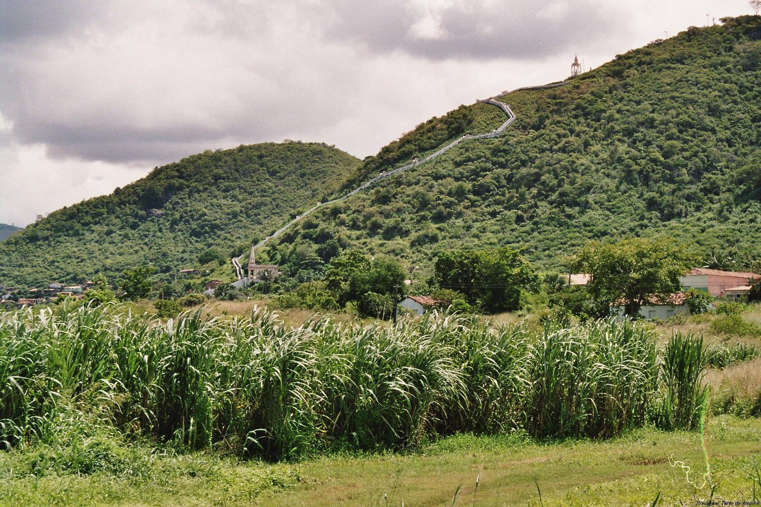 Redenção